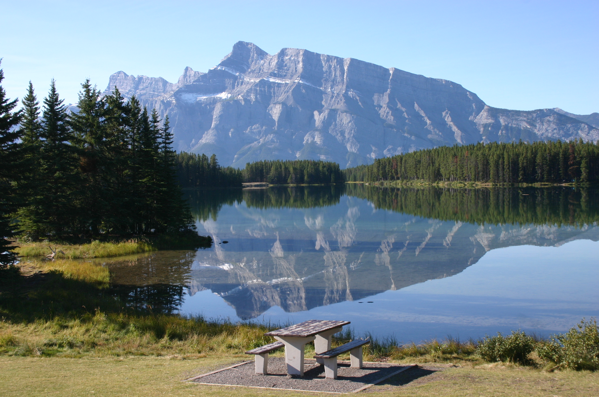 Water reflection at Two Jack Lake, a subsidiary part of Lake Minnewanka, with Mt. Rundle in the background.